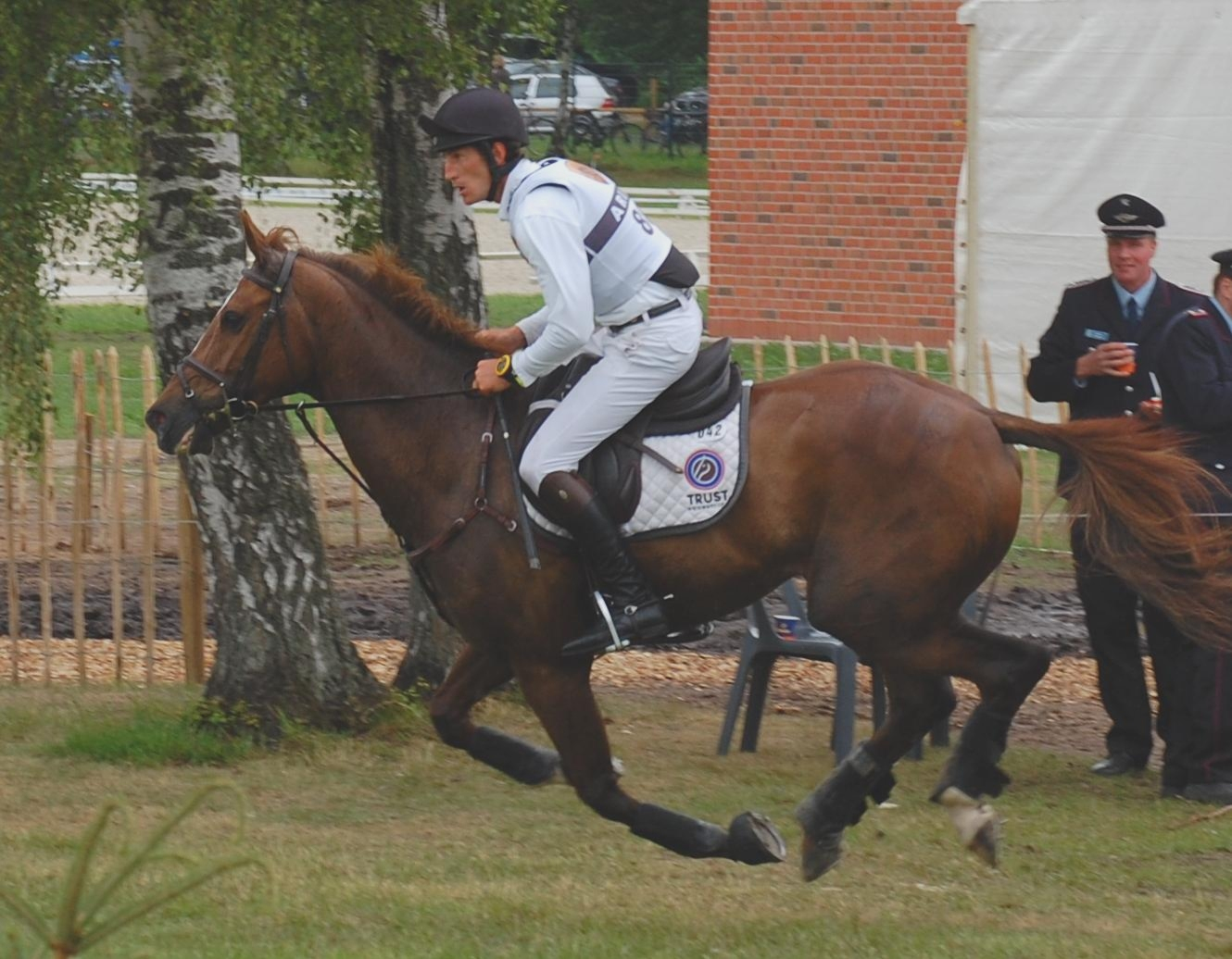 German rider Dirk Schrade with Hop and Skip at the 2011 CCI 4*-event Luhmühlen.